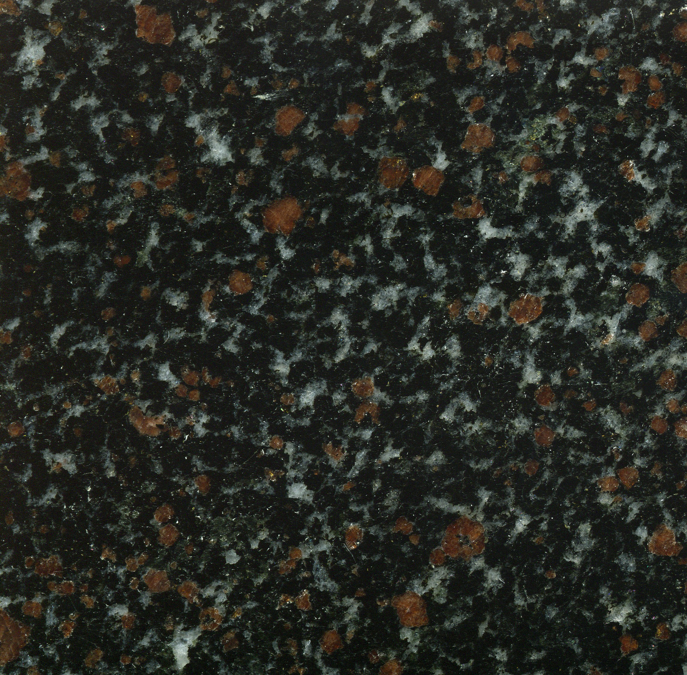 Nordic Sunset Granite (a.k.a. Tondra Granite, Tundra Granite, Toundra Granite) - crystalline-textured garnet amphibolite attributed to Murmansk District, northern Karelia Republic, far-northwestern Russia. Black = amphibole. Whitish gray = plagioclase feldspar. Deep red = garnet. Amphibolite is a foliated- or crystalline-textured metamorphic rock dominated by amphibole. Amphibolite forms by intermediate-grade metamorphism of basalt or gabbro.